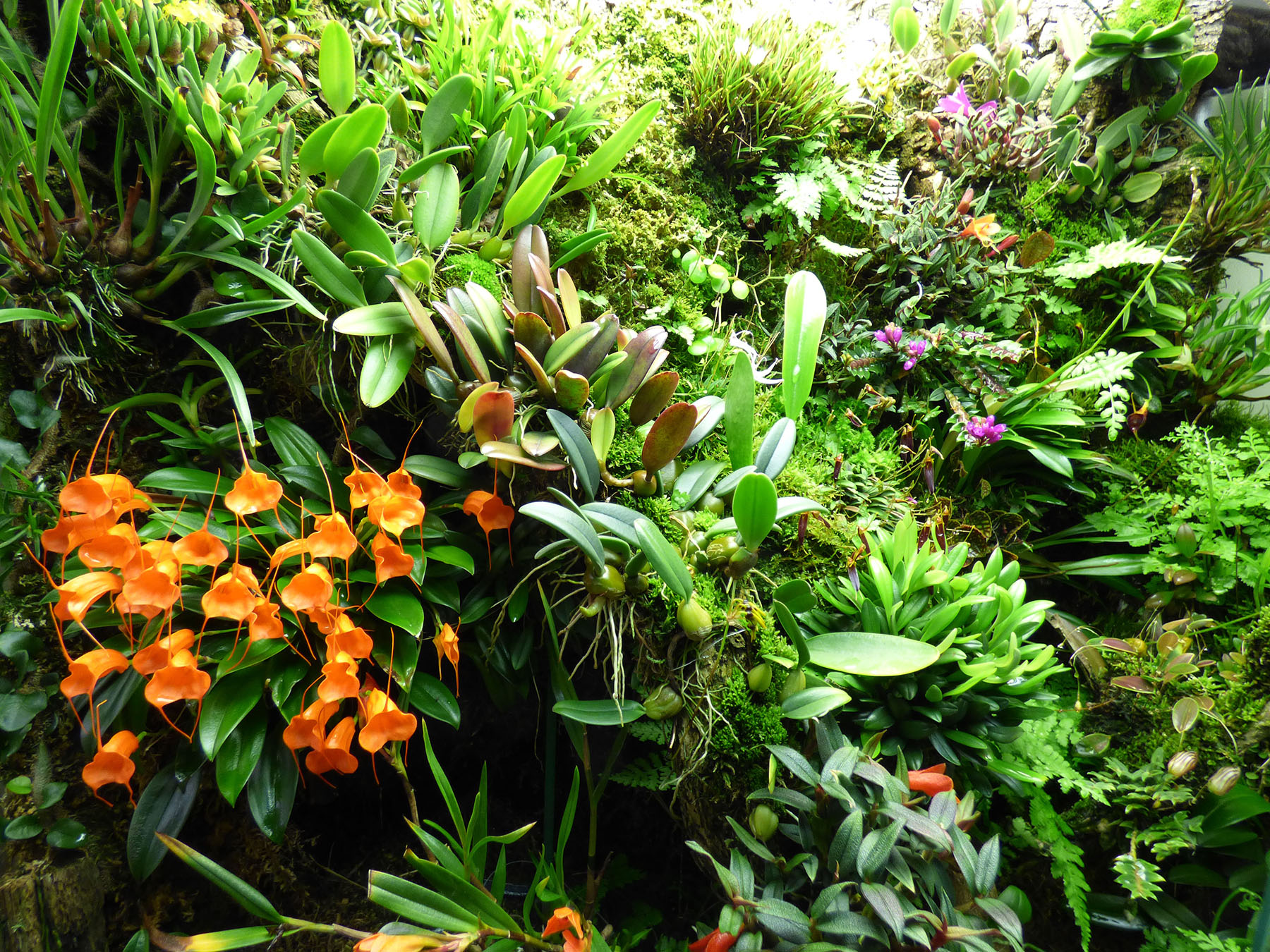 Acme Orchidarium Naturalistic Style